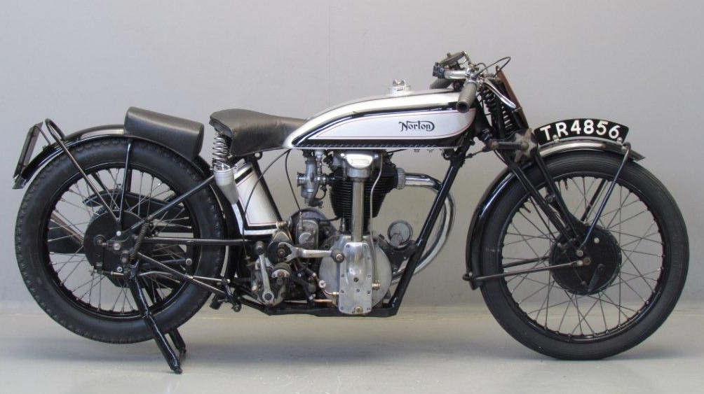 1929 Norton CS1 500 cc racing motorcycle